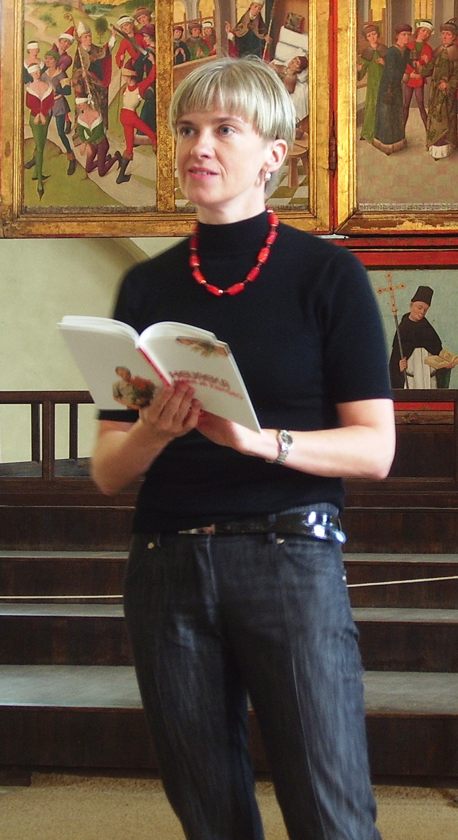 Maarja Kangro (born 1973) is Estonian poet and translator. Reading her poems in Niguliste church during Tallinn Literature Festival.